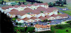 hopital